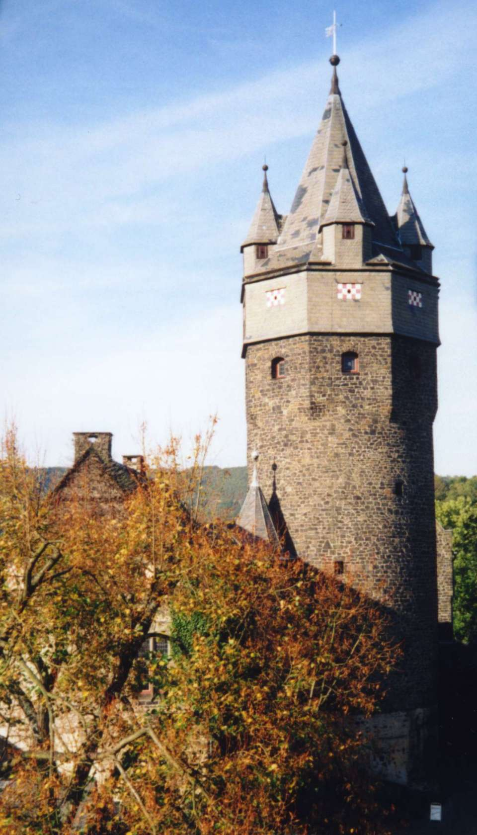 The Pulverturm (powder tower) of the Castle Altena. Photo taken by User:Ahoerstemeier in November 2001.